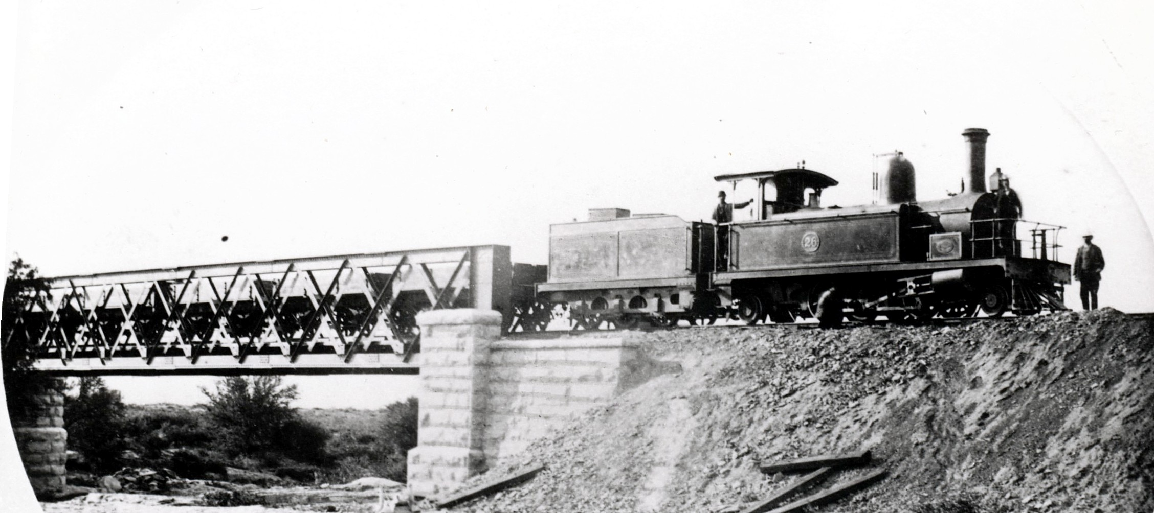 CGR 2nd Class 2-6-2TT no. M26 on Fish River Bridge during constuction(Stephenson works no. 2333 of 1878, no M26, then no. 126 and then no. 226)